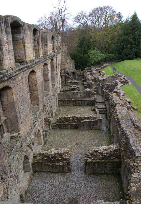 Dunfermline Palace, Dunfermline, Fife, Scotland - view from east